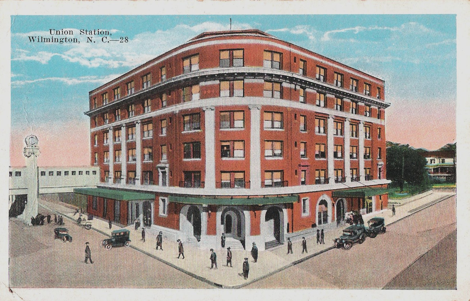 From PhC.184 Massengill Postcard Collection, State Archives of North Carolina, Raleigh, NC.